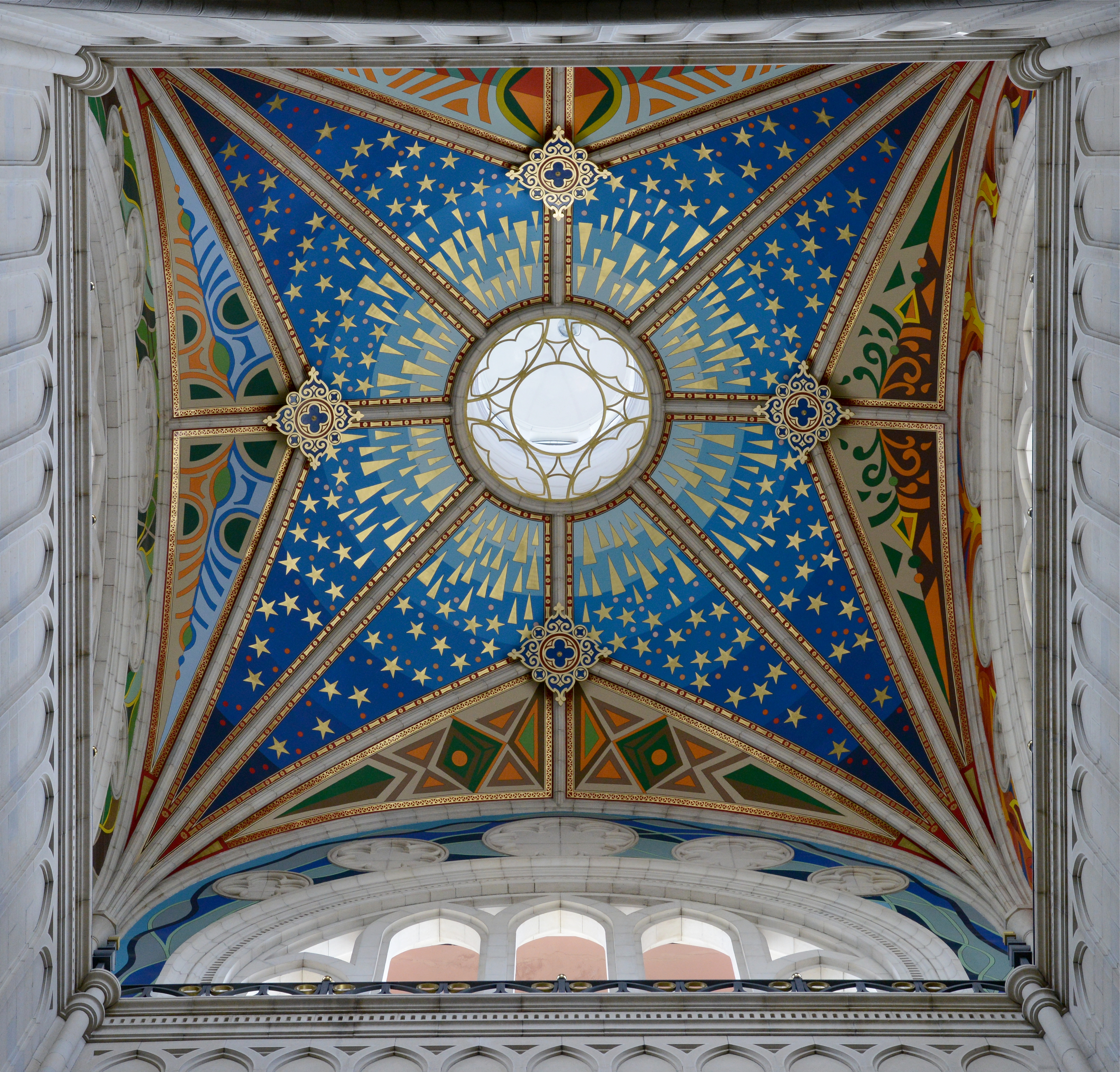 Cupole of the Almudena cathedral, Madrid